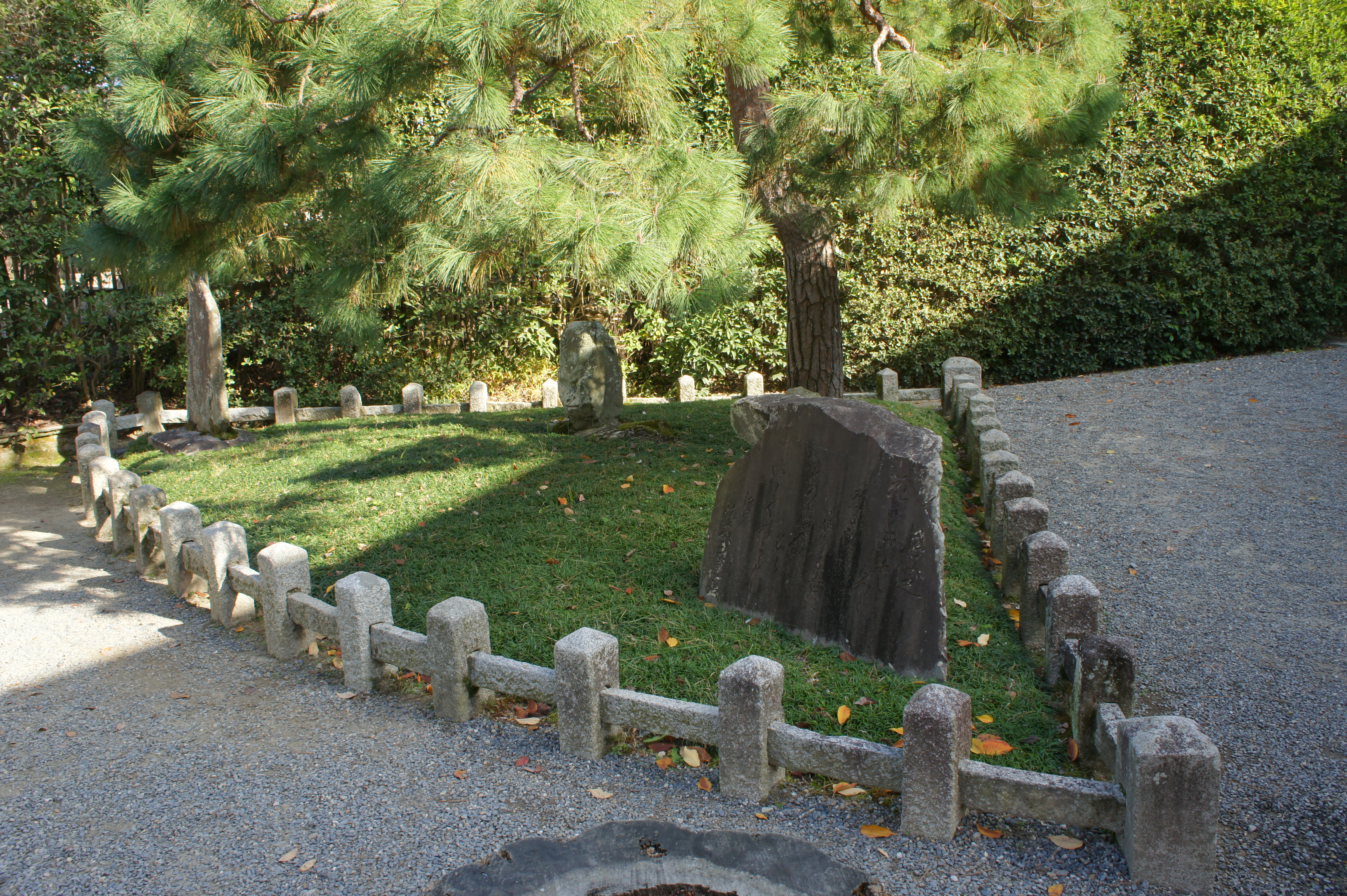 Byōdō-in in Uji, Kyoto prefecture, Japan. It was registered as part of the UNESCO World Heritage Site "Historic monuments of ancient Kyoto".